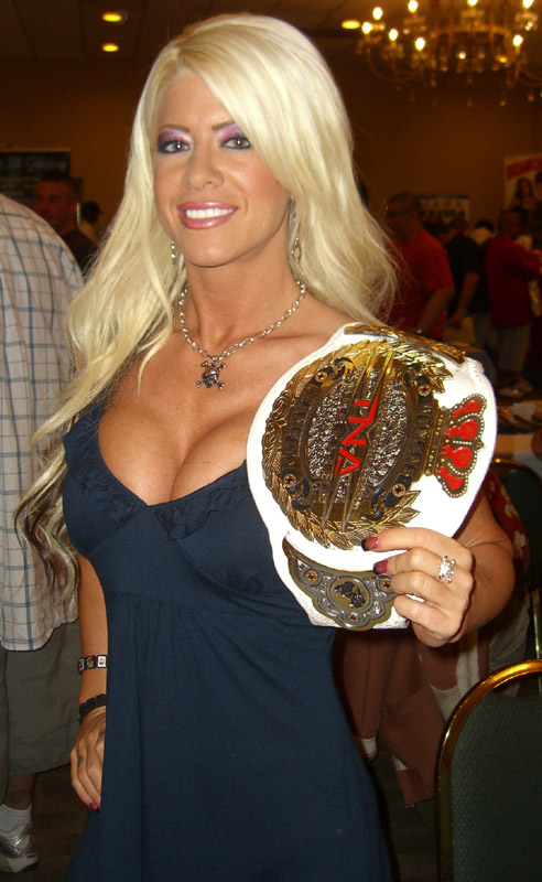 Professional wrestler Angelina Love at the Big Apple Summer Sizzler in Manhattan, June 13, 2009.